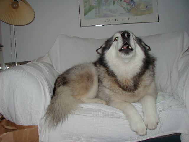 Own photo (author of danish wiki-article on Alaskan Malamute)